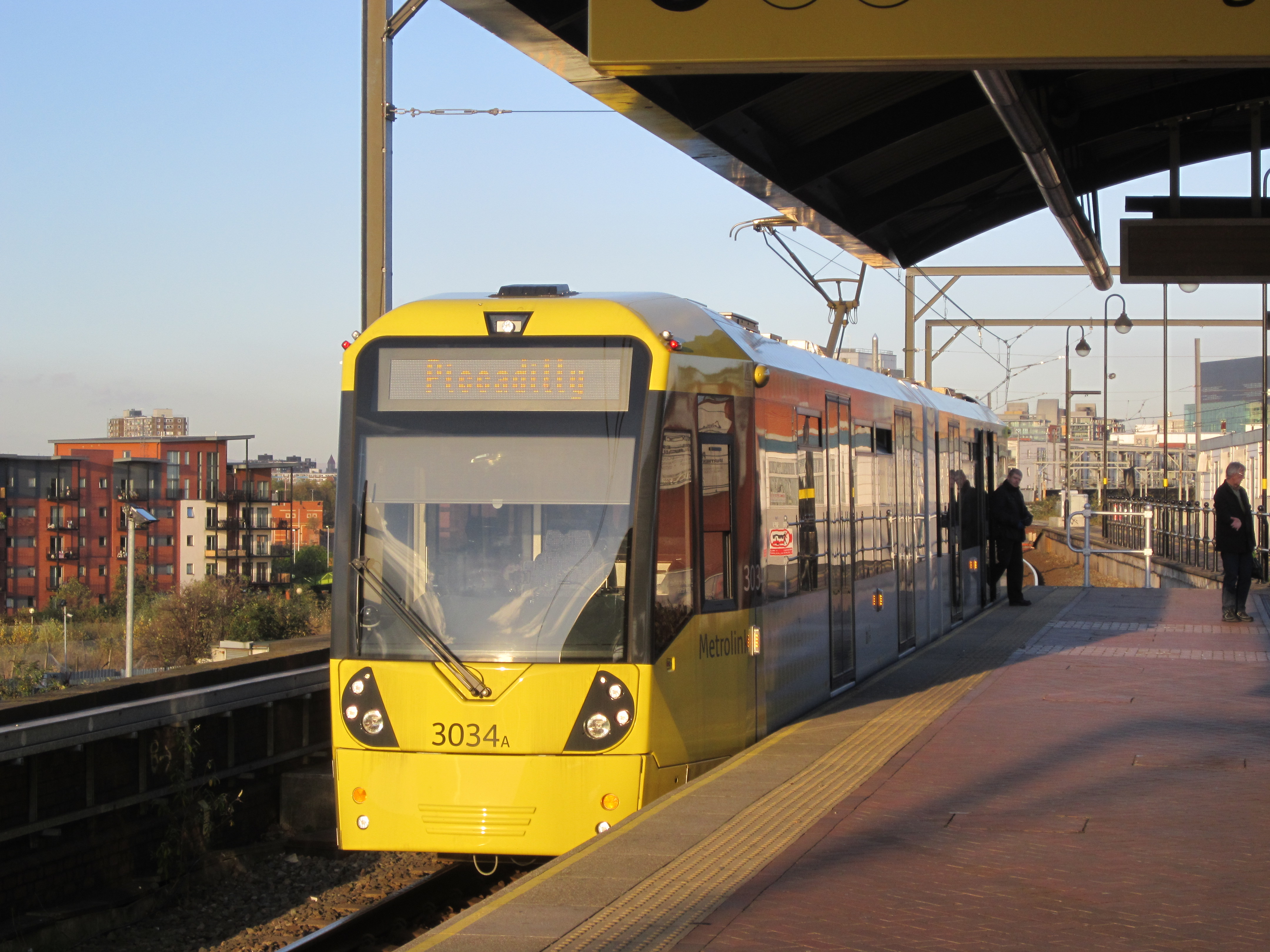 Photo taken at Cornbrook Metrolink station, Greater Manchester, England.